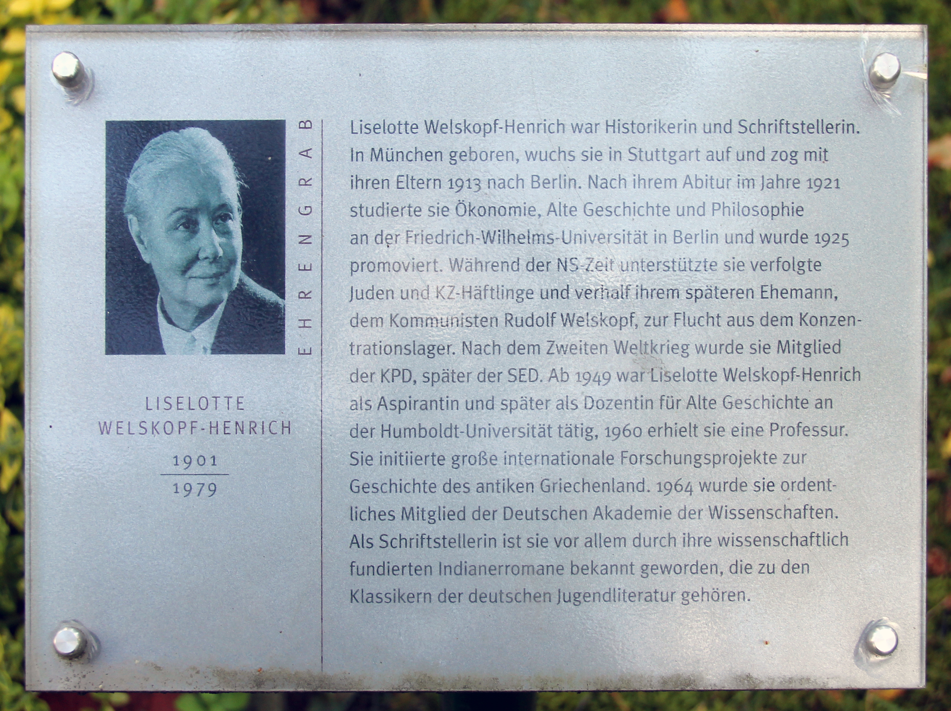 Memorial plaque, Liselotte Welskopf-Henrich, Friedlander Straße 156, Berlin-Adlershof, Deutschland